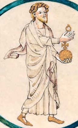 Ramon Berenguer IV. (Barcelona)